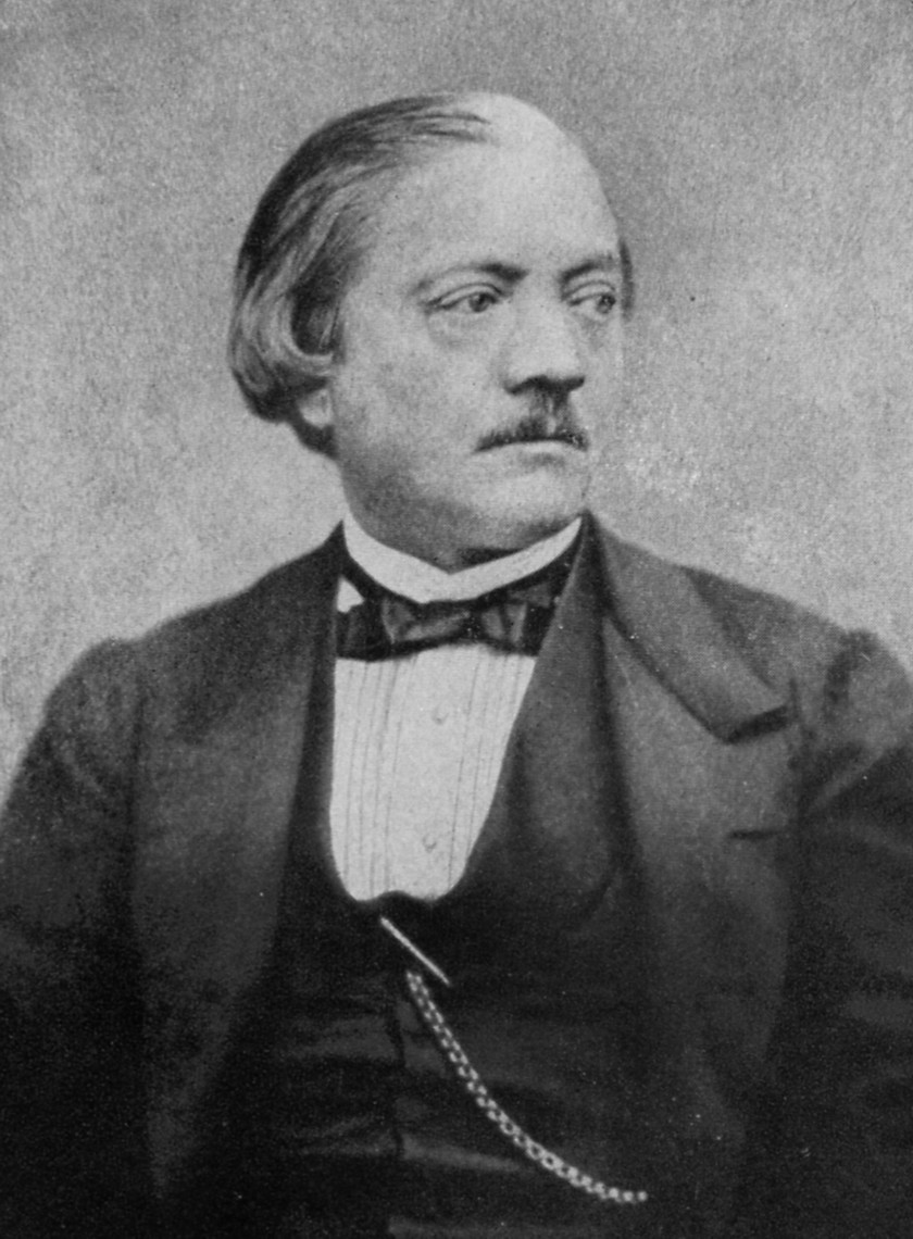 Portrait by unknown of the Ballet Master Jules Perrot. London, circa 1850. Image was scanned from the book "Complete Book of Ballets: A Guide to the Principal Ballets of the 19th & 20th Centuries" by Cyril W. Beaumont. Published by G.P. Putnam's Sons, 1938.